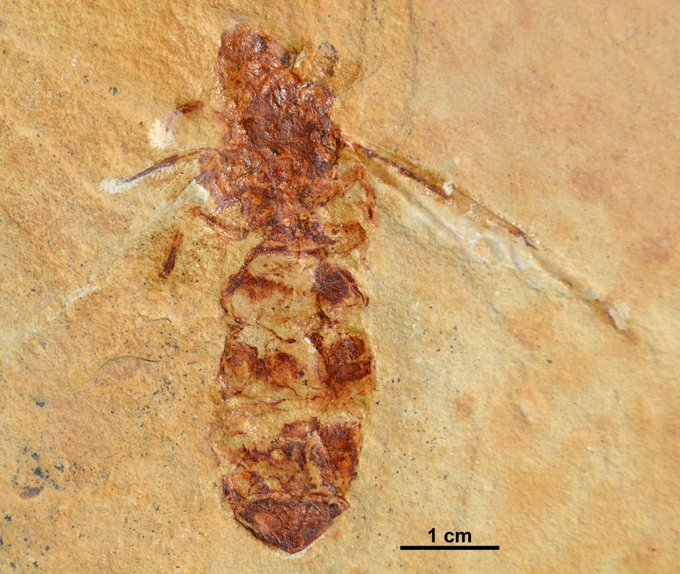 Dorsal view of the Titanomyrma lubei holotype queen, specimen "DMNH9041"